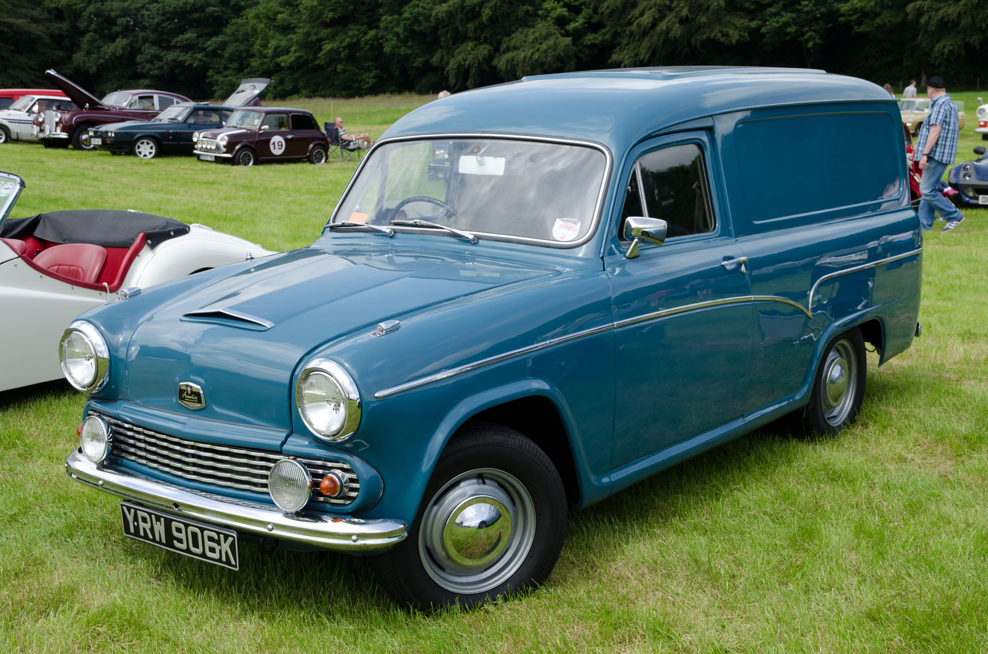 Hoghton Tower Classic Car Show 22/06/2014